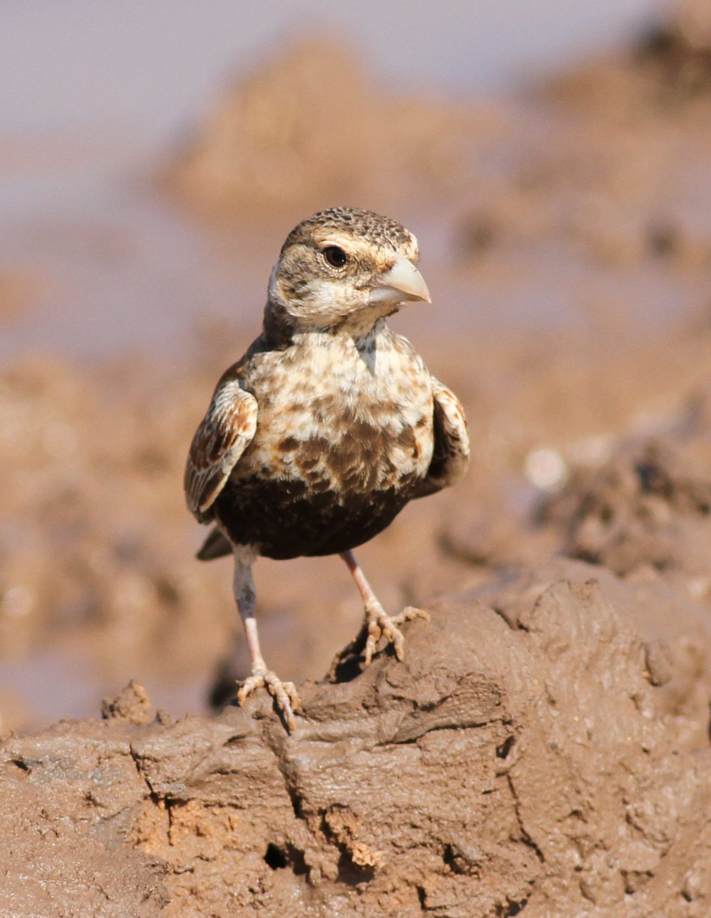 Chestnut-backed sparrow-lark,Eremopterix leucotis at Mapungubwe National Park, Limpopo, South Africa